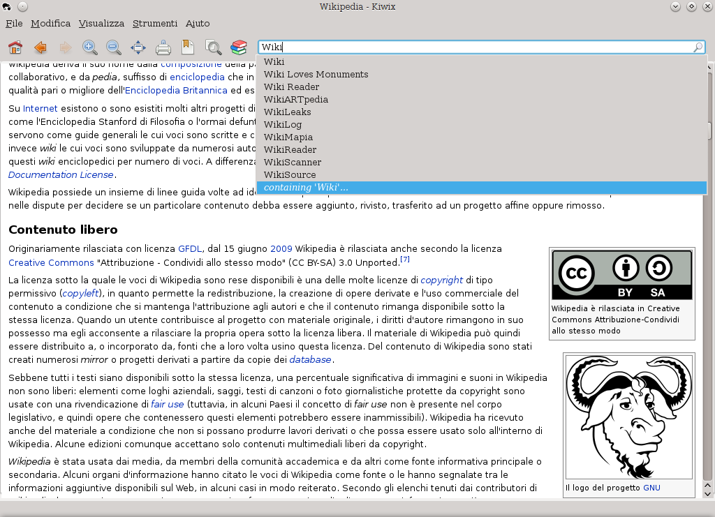 Kiwix 0.9 rc2 screenshot